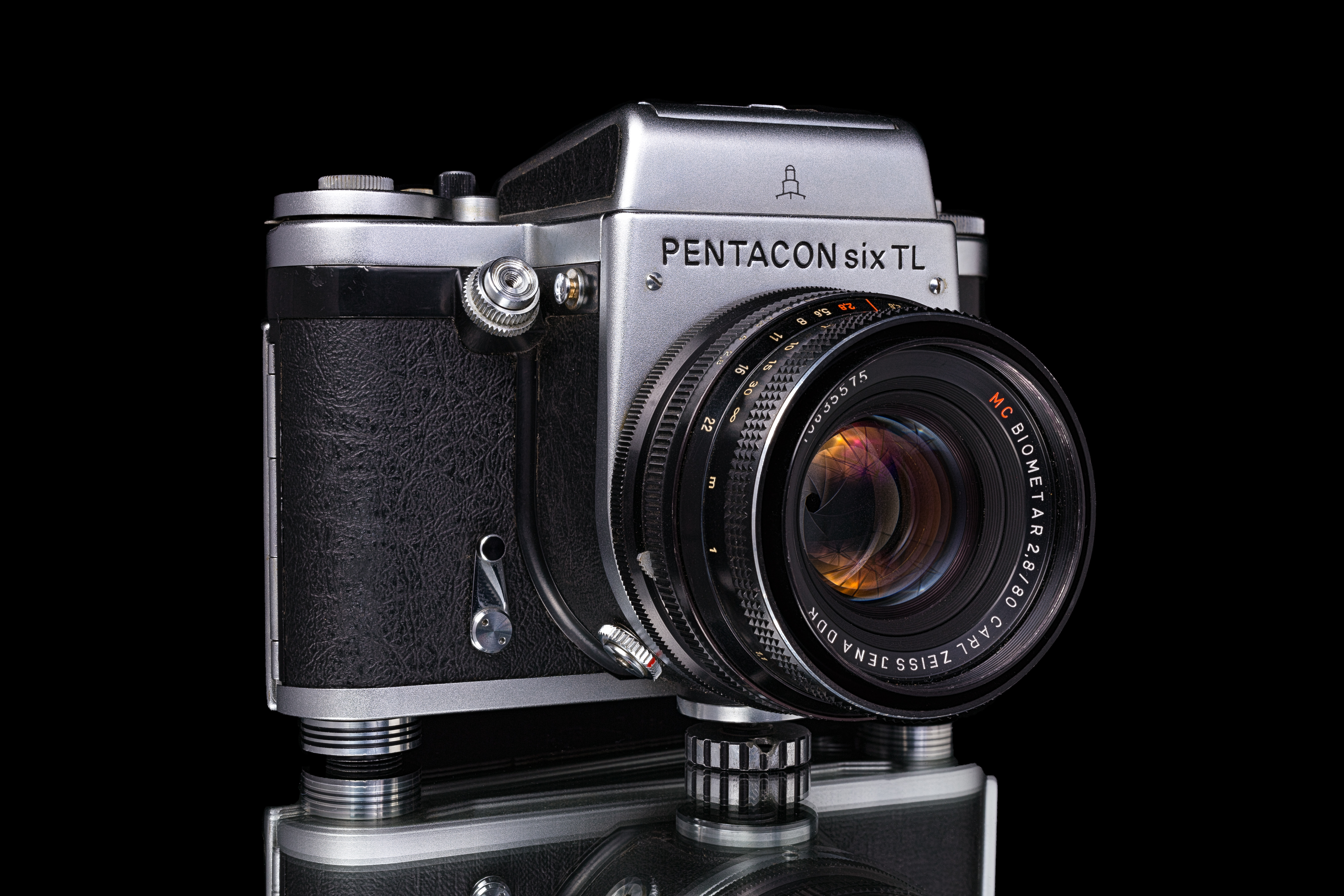 Vintage Pentacon Six TL medium format camera with the standard prime lens Carl Zeiss Jena Biometar f/2.8 80mm mounted on.